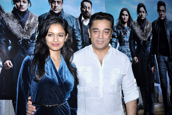 Kamal Haasan and Pooja Kumar at 'Vishwaroop' media meet mumbai